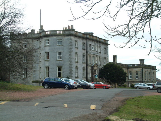 Murdostoun Castle Formerly a stately home but now a hospital specialising in brain injuries